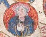 Katherine of York, younger sister of Queen Elizabeth of York and mother of Henry Courtenay, 1st Marquess of Exeter.